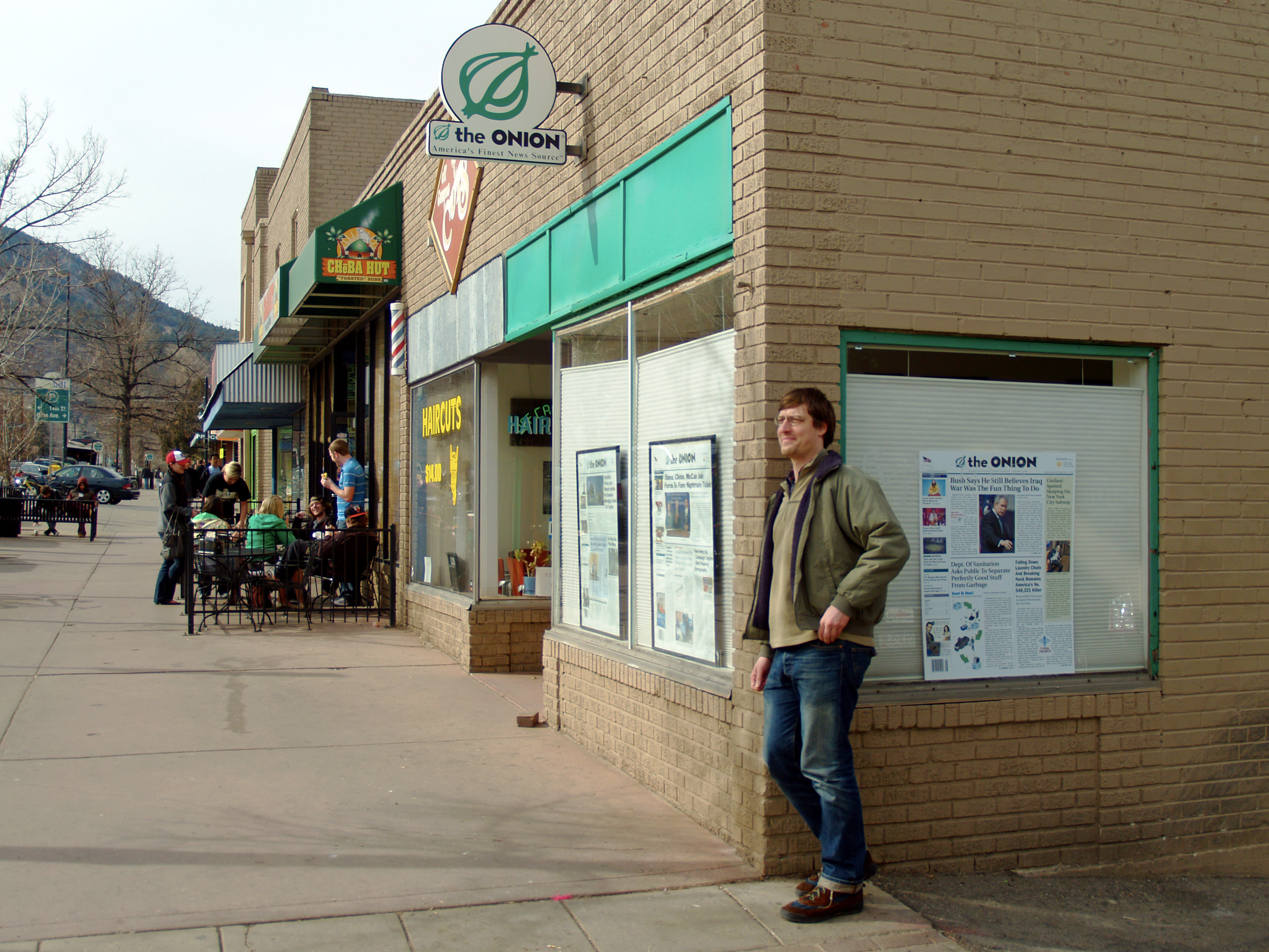 Office of The Onion on The Hill in Boulder, Colorado.